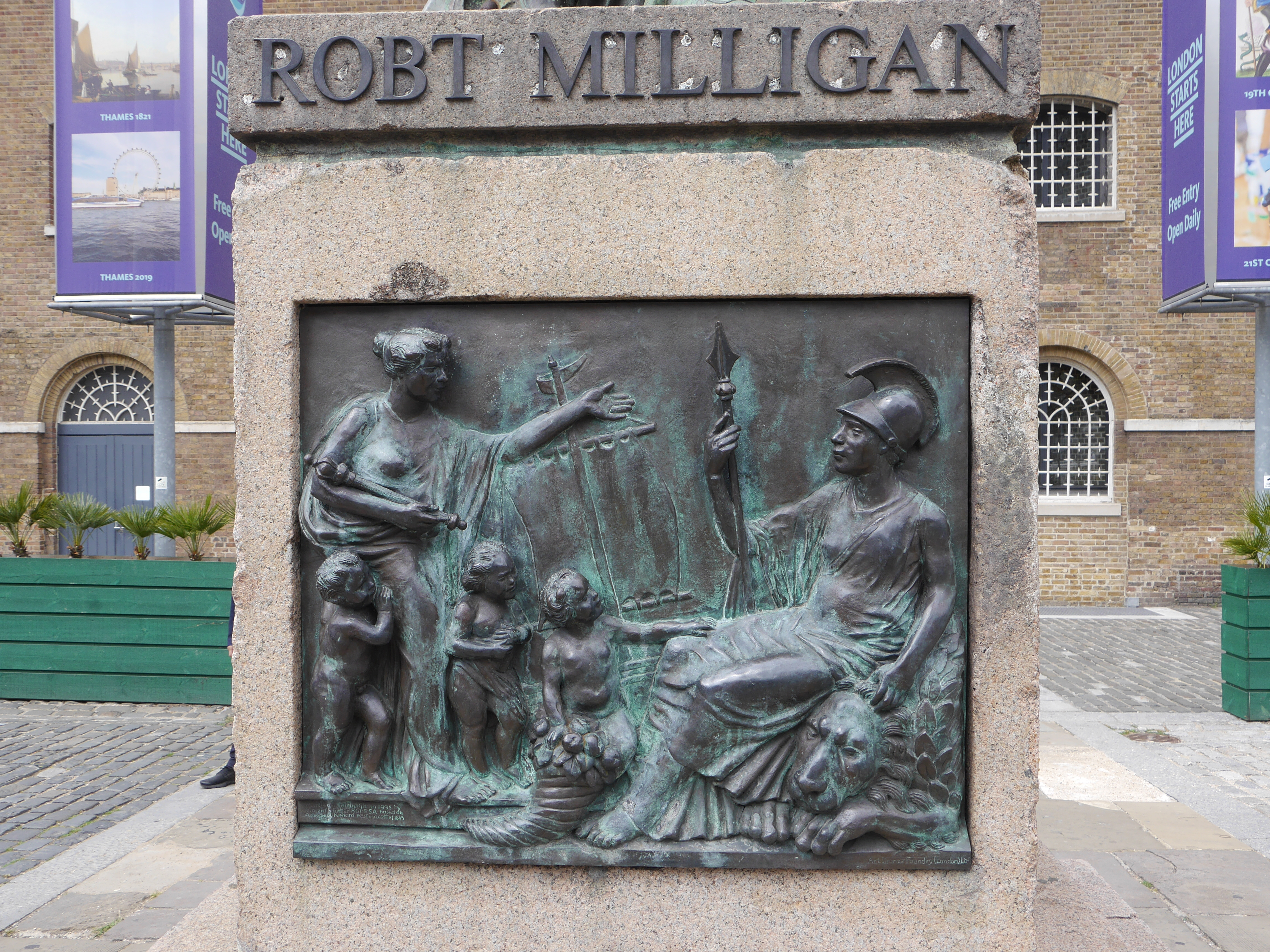 The bronze relief on the front of the pedestal supporting the statue of Robert Milligan outside the Museum of London Docklands. Above the relief is the inscription for the statue: "ROBT. MILLIGAN" Taken on 9 June 2020